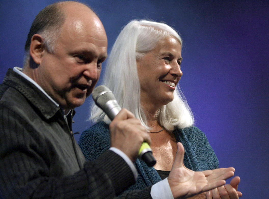 Beatrix Neundlinger and Sepp Stranig - opening the charity evening wiener melange 2011 for the Integrationshaus at Brauerei Ottakringer in Vienna.